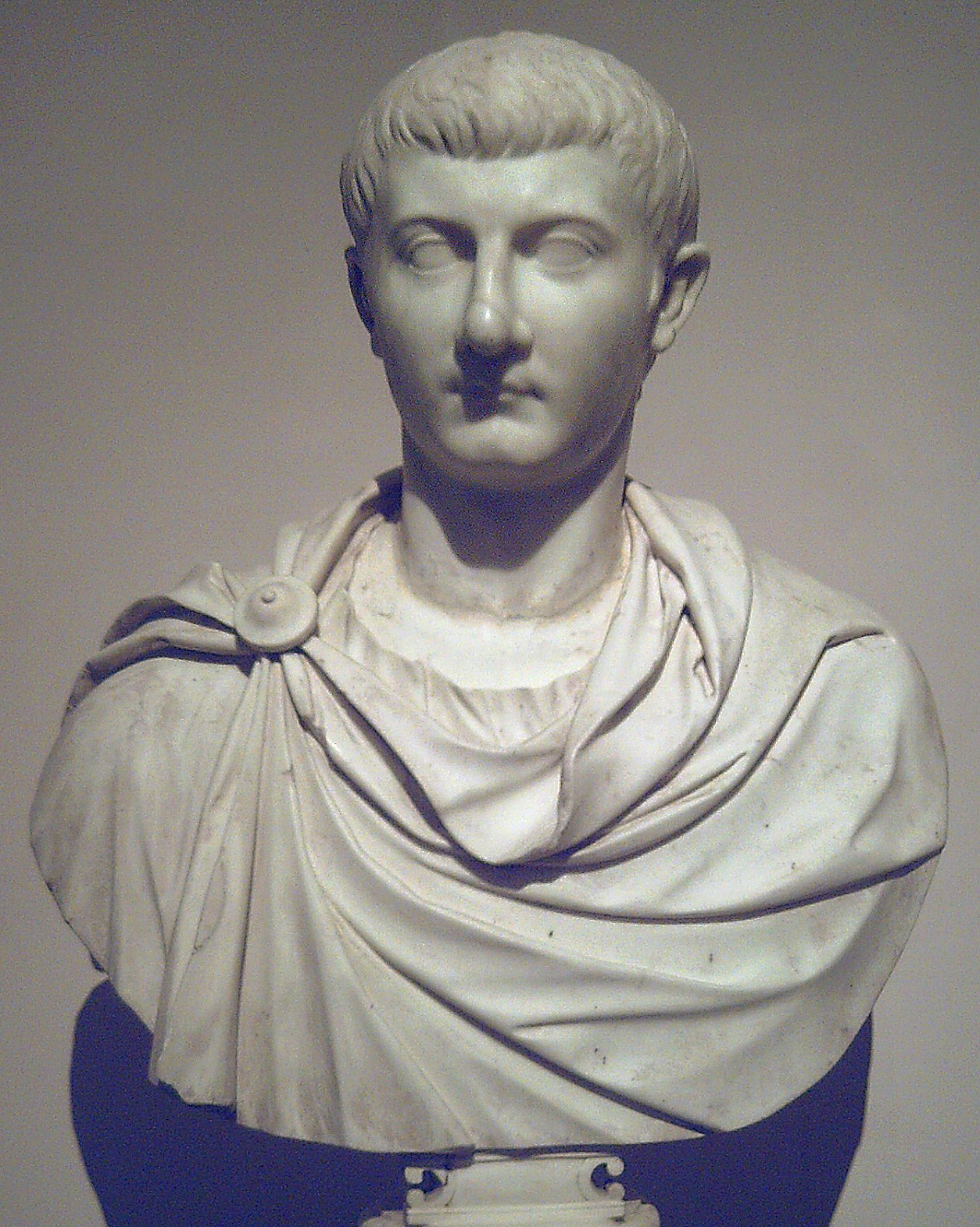 Portrait of Julius Caesar Drusus (13 BC–23 CE).